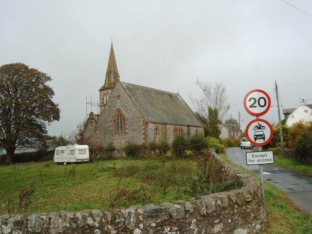 Beeswing Kirk